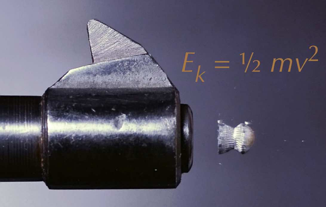 Pellet exiting muzzle, with formula for energy overlaid. This is derivative from